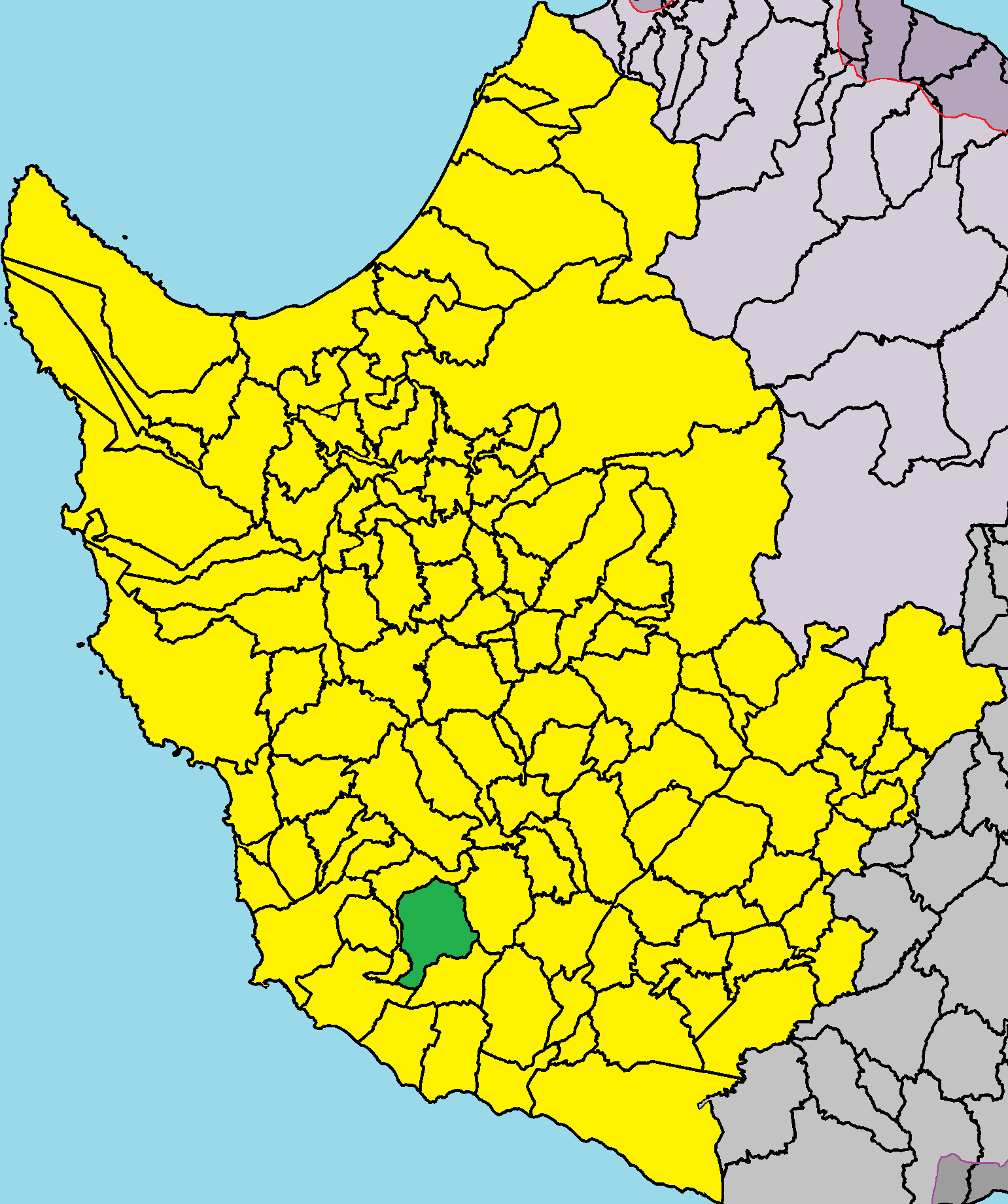 Marathounta in Paphos District.